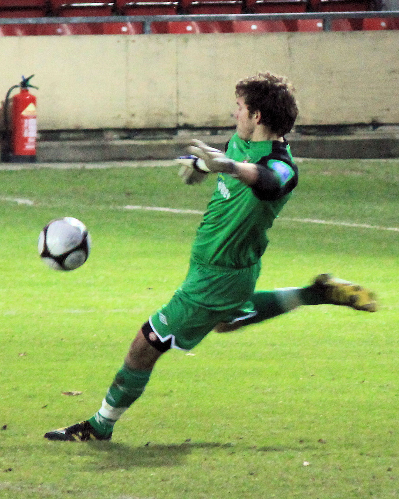 Chris Maxwell Wrexham AFC goalkeeper